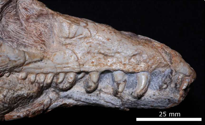 Close up of the snout of Teyujagua paradoxa.